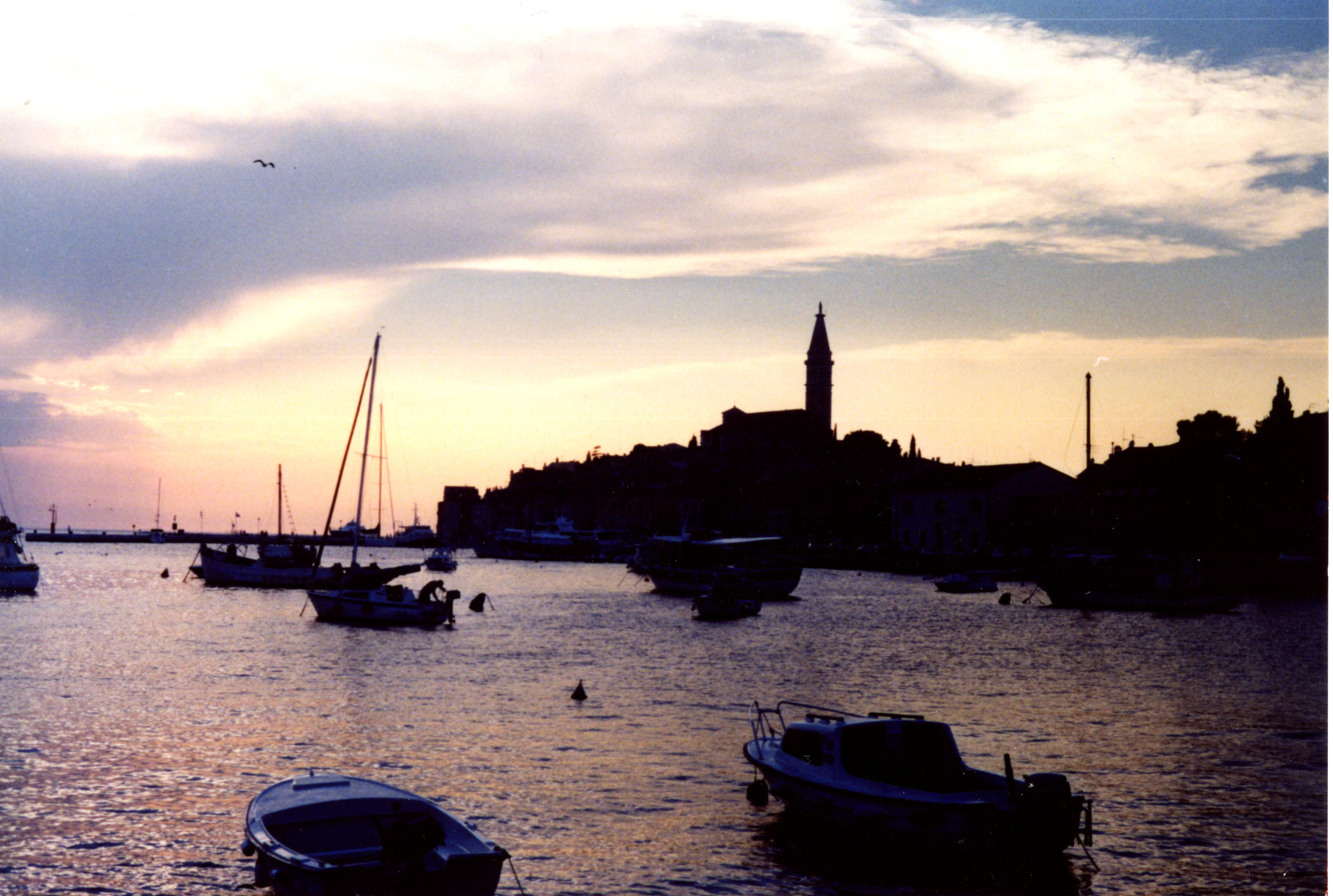 View of Rovinj at sunset